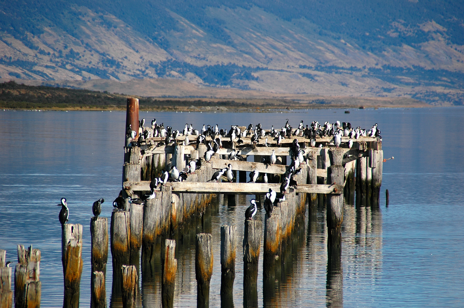 Imperial Shags (Phalacrocorax atriceps) on Seno Ultima Esperanza, Chile.